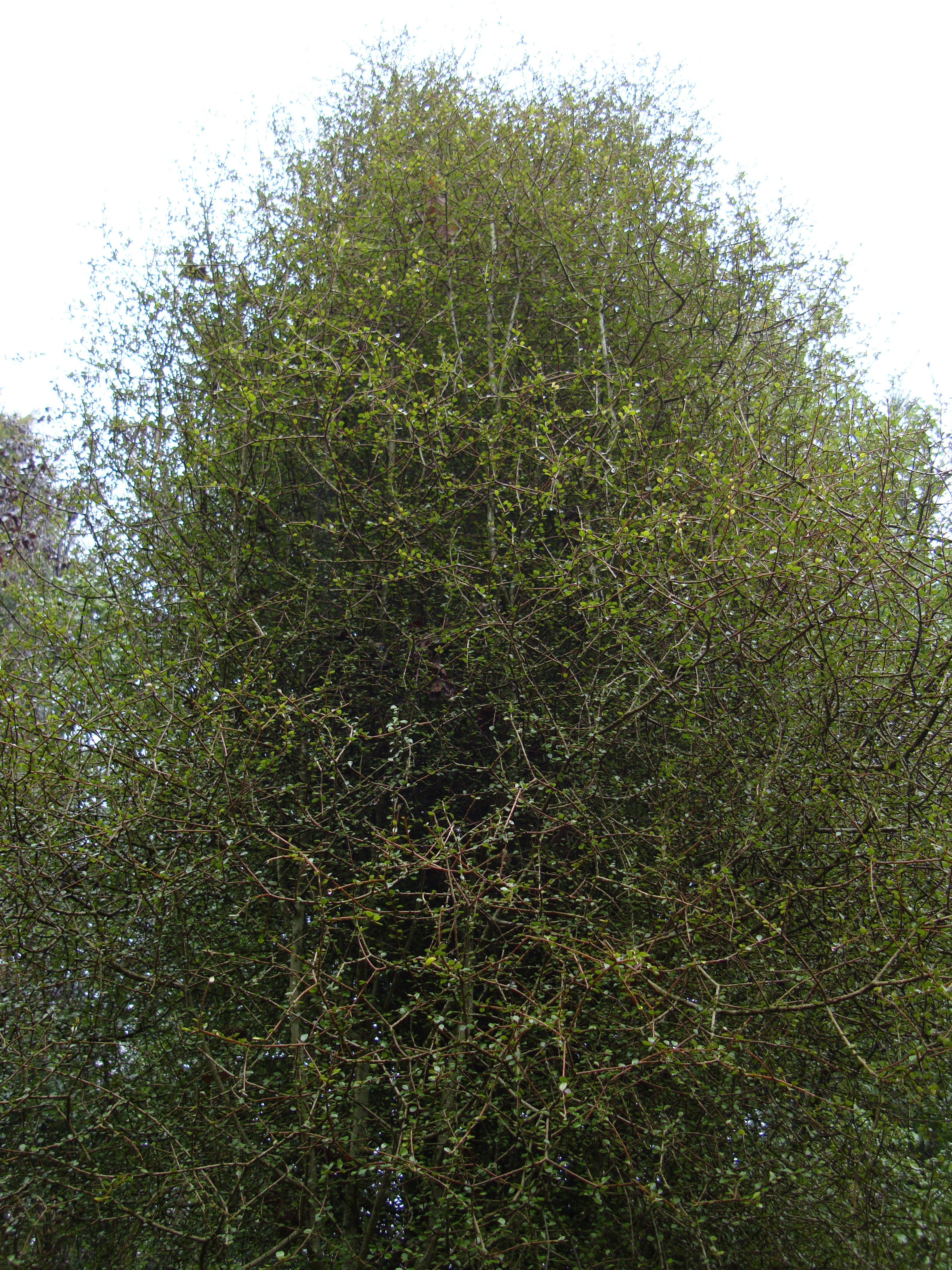 Pittosporum obcordatum var. kaitaiaensis Bicton College